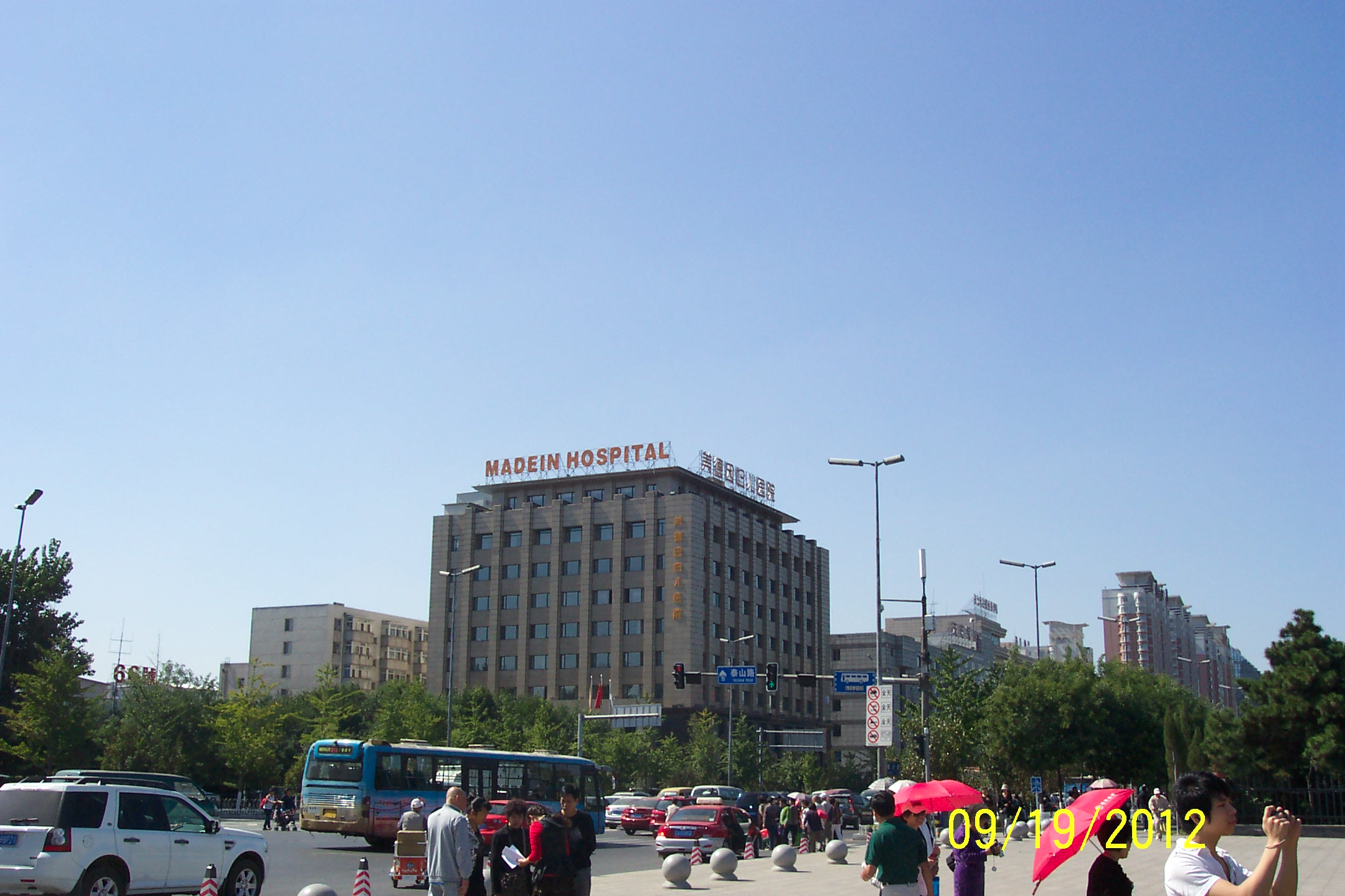 Madein Hospital in Shenyang